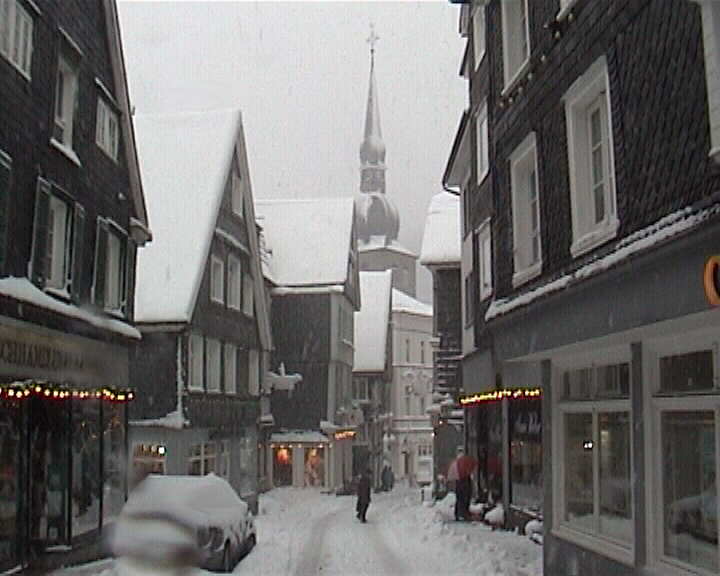 Description: Langenberg (Rheinland) Germany Source: own photo Date: November 26, 2005 Author: Gerd Thiele